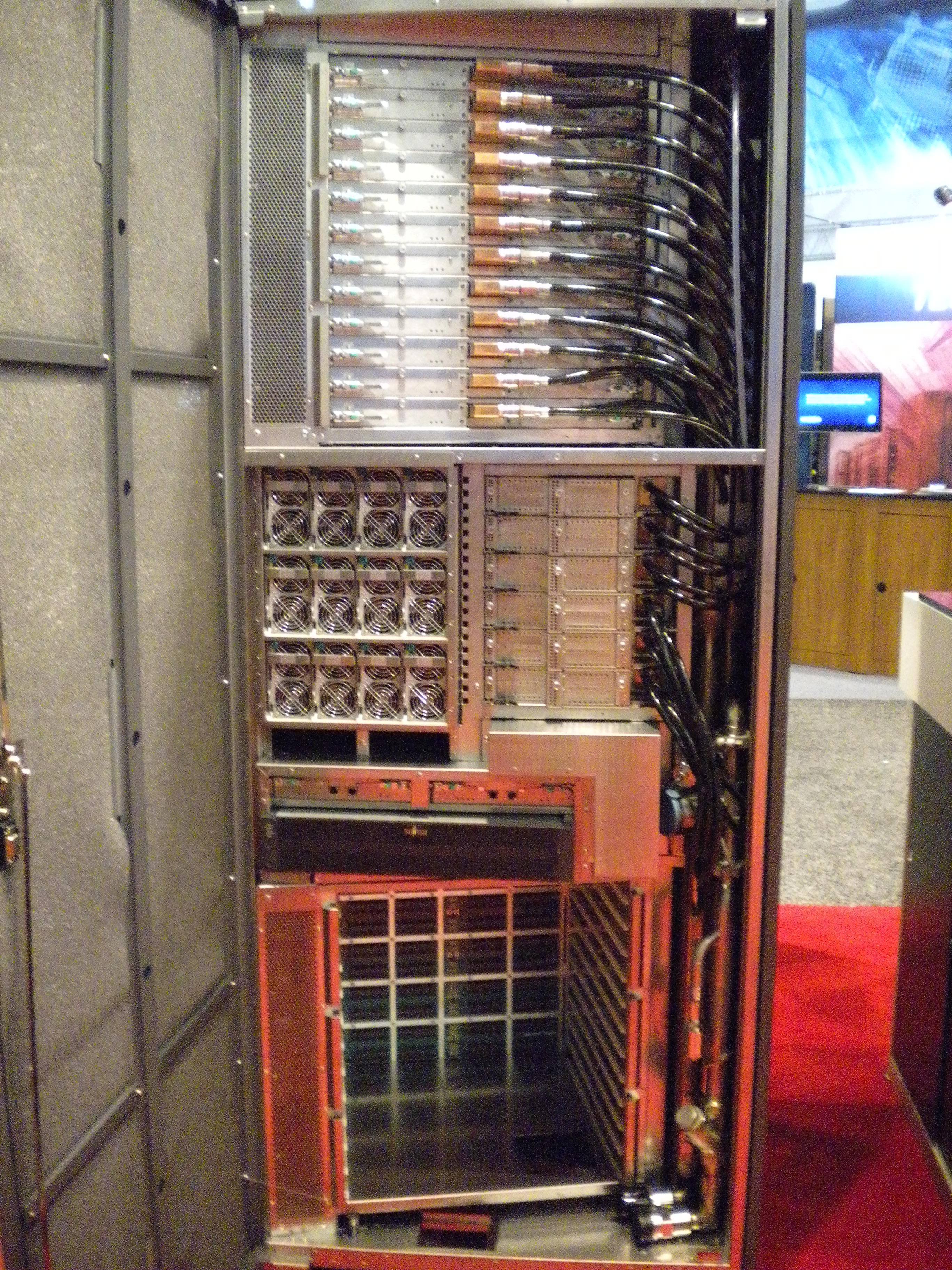 A rack of RIKEN's next-generation supercomputer manufactured by Fujitsu